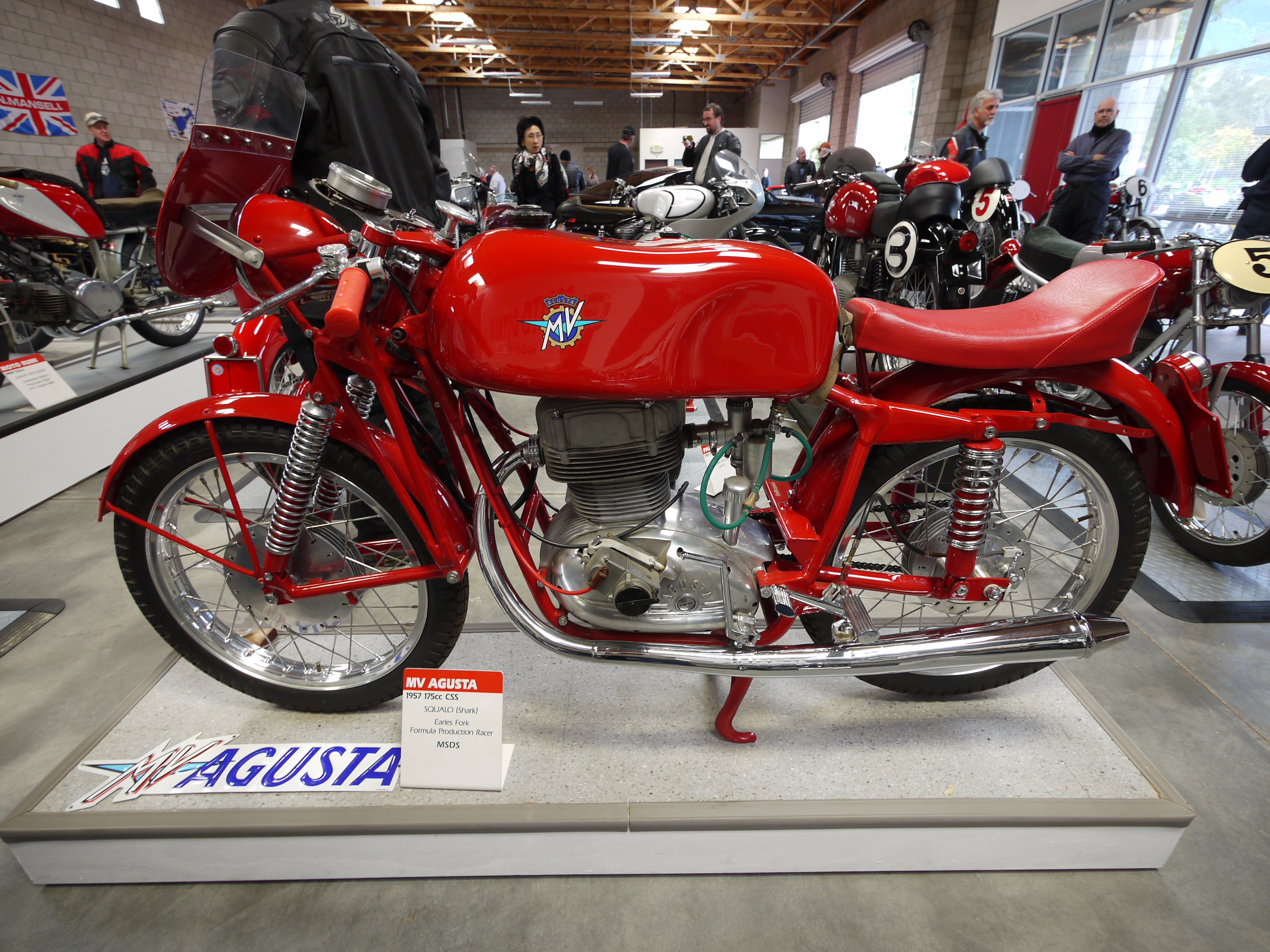 MV Agusta 175 CSS Squalo, MSDS, 1957